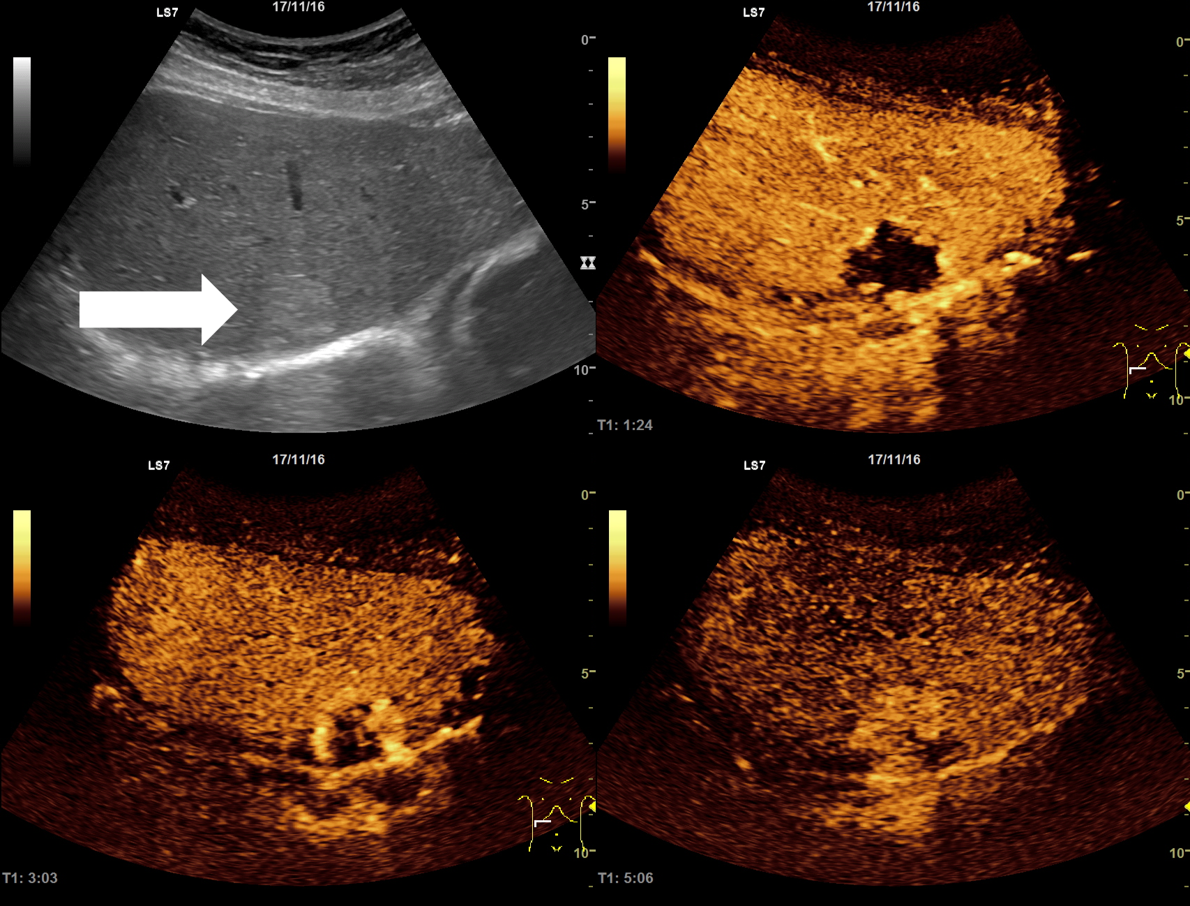 Ultrasound scan of a liver hemangioma in B-mode and contrast enhanced ultrasound (CEUS)